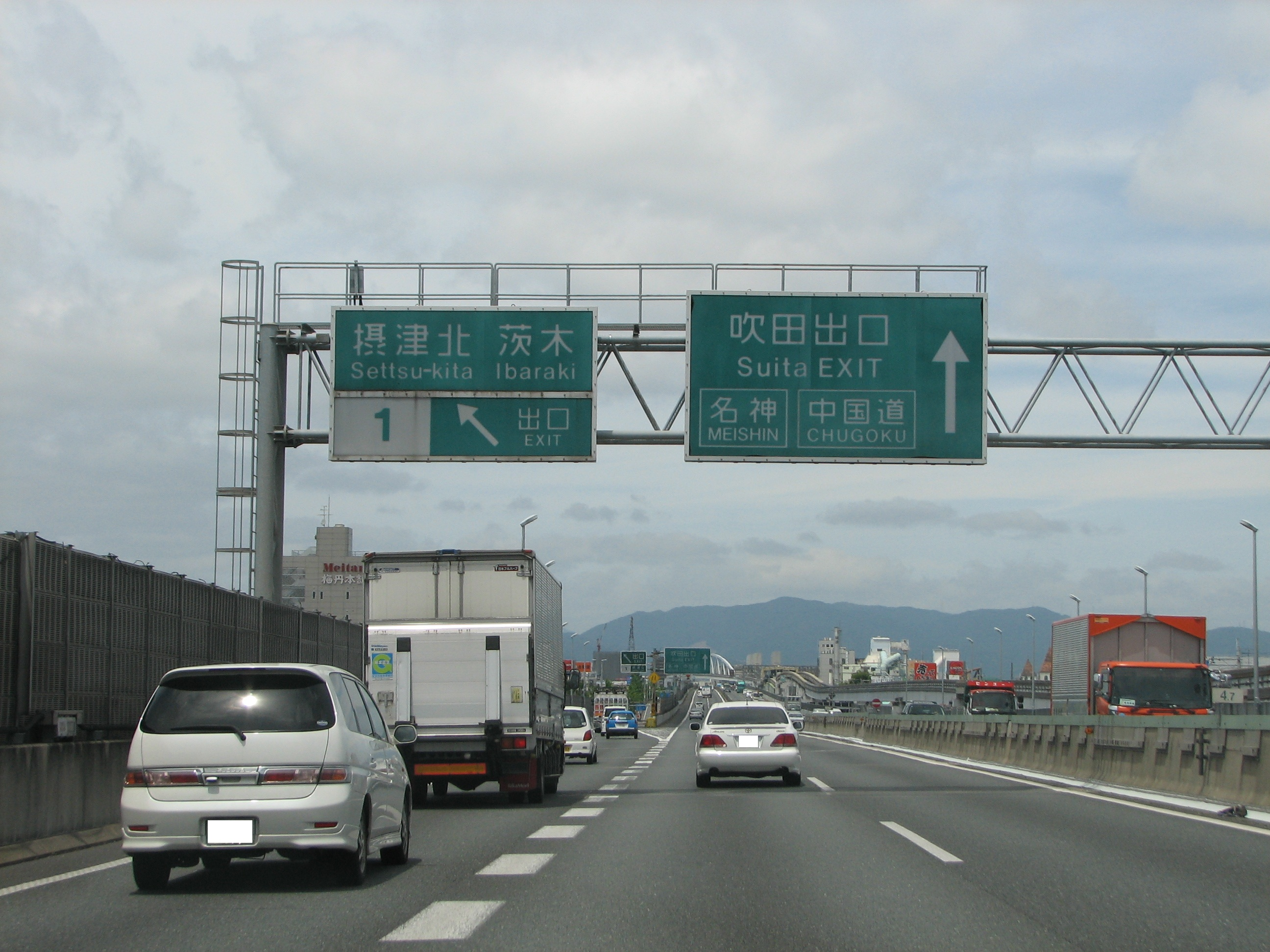 Settsu-kita IC